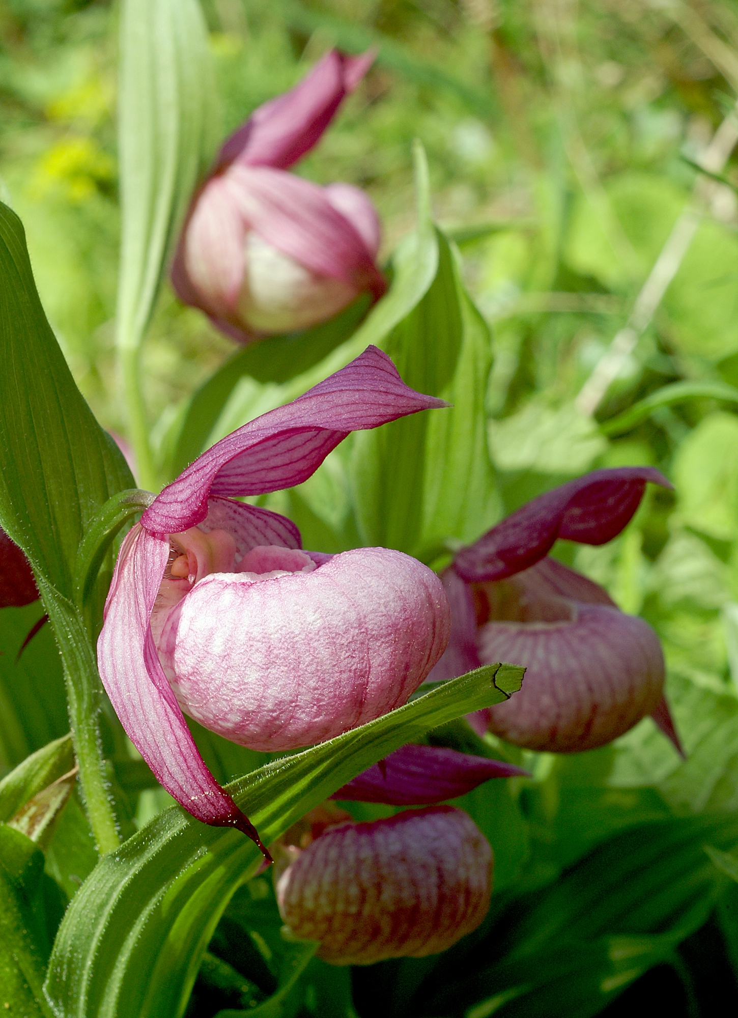 Cypripedium macranthos